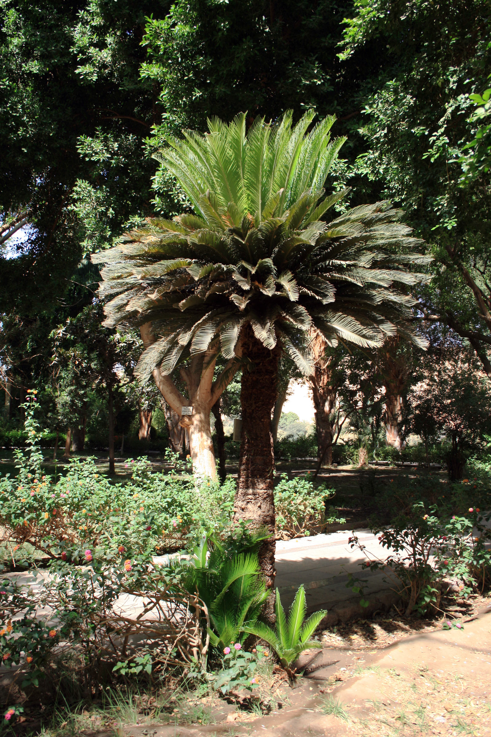 Cycas revoluta - sago palm in the Aswan Botanical Garden - on Kitchener's Island in the Nile, Aswan - Egypt.